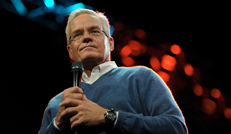 This image was provided to me for use on Wikipedia by Willow Creek Community Church on behalf of Bill Hybels. They have given up all rights to me and I am releasing those rights into public domain.